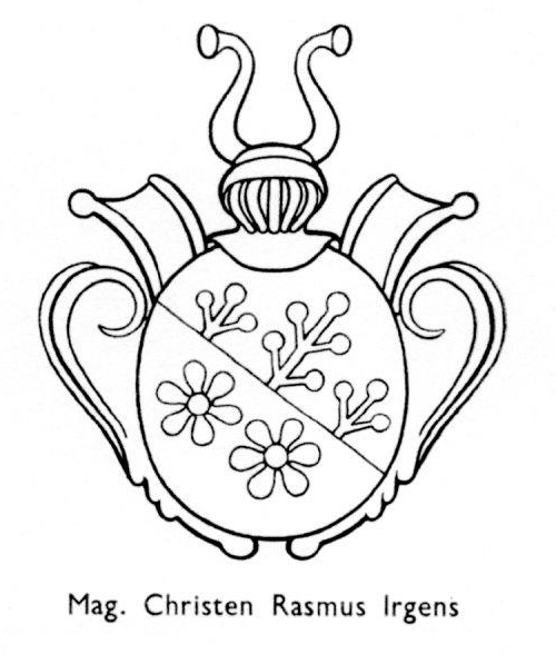 Christen Rasmus Irgens, priest in Askim, Norway. Seal 1710